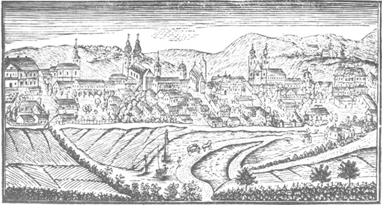 View of Fehérvár, Hungary